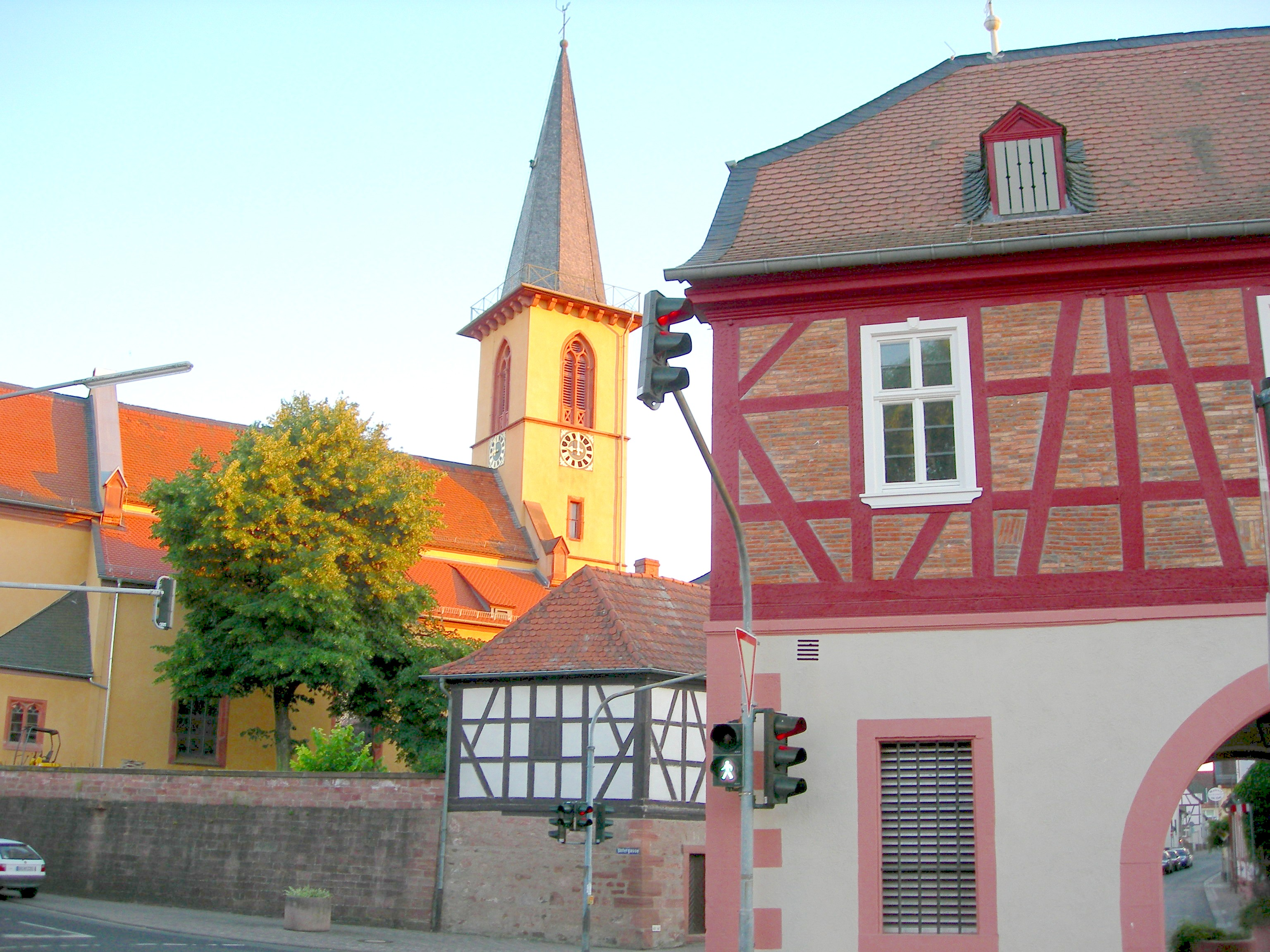 Kleestadt near Groß-Umstadt (Hesse), church and historic gate house